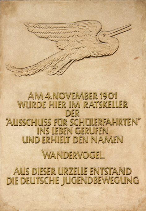 Commemorative plaque: Foundation of the Wandervogel movement around 1900 at the city hall of Steglitz in Berlin